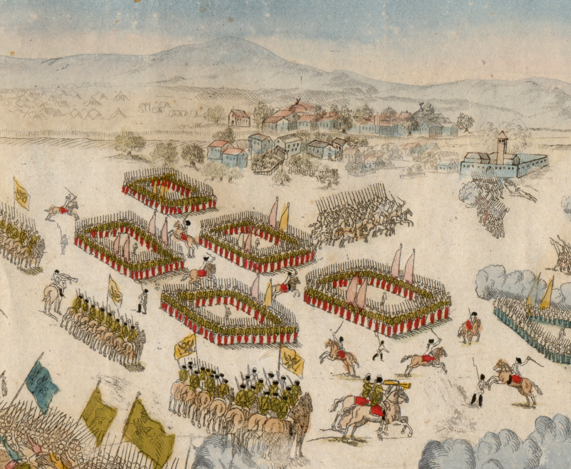 Focsani Battle 1 august 1789 Contributors Löschenkohl, Johann Hieronymus, 1753-1807 (artist) Date Issued 1789 Abstract Hand-col. engr. by and after Löschewnkohl; milit. group with prisoner and mounted soldiers in foreground, perspective view of battle in background. Keywords History, Military 18th century Austro-Turkish War, 1788-1790 Campaigns